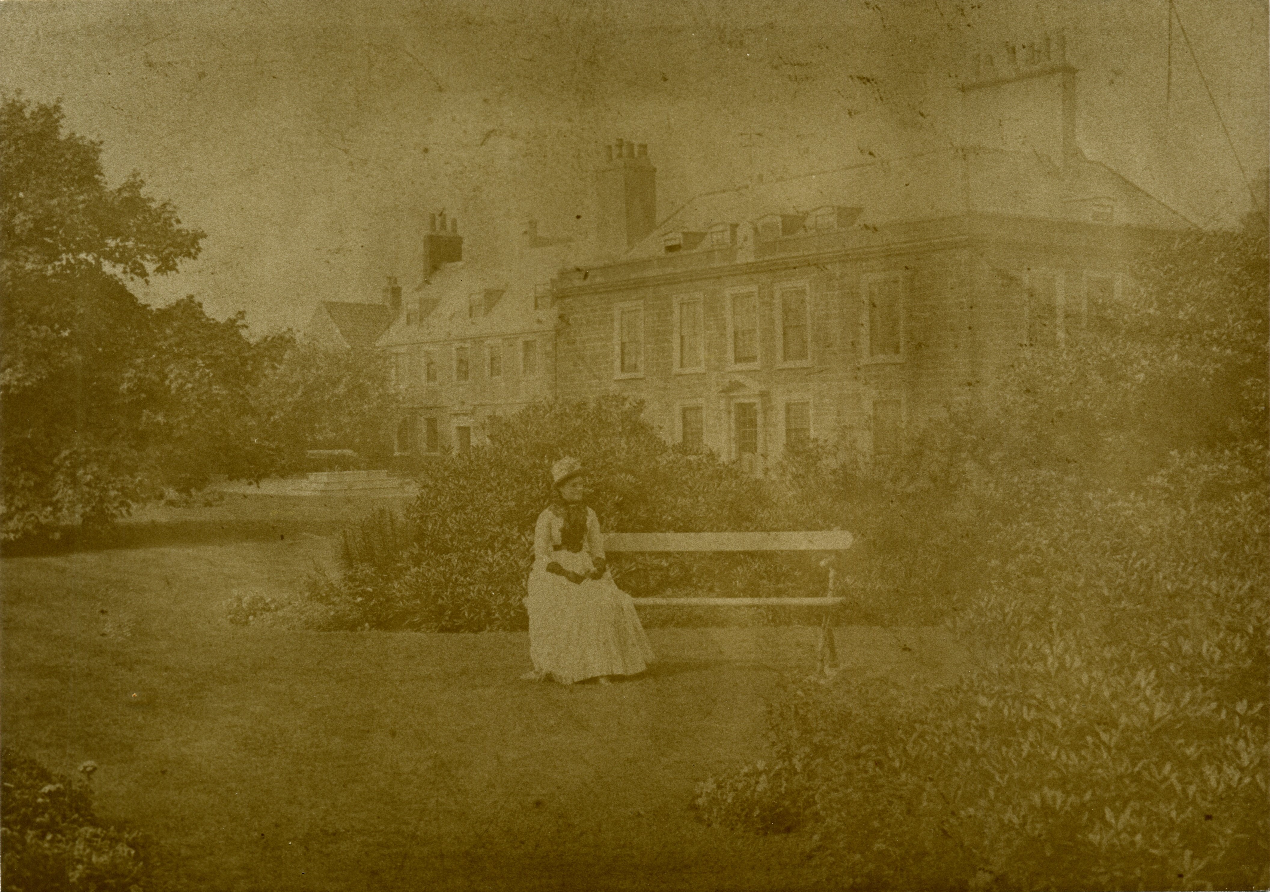 Old photograph of Chirton Hall